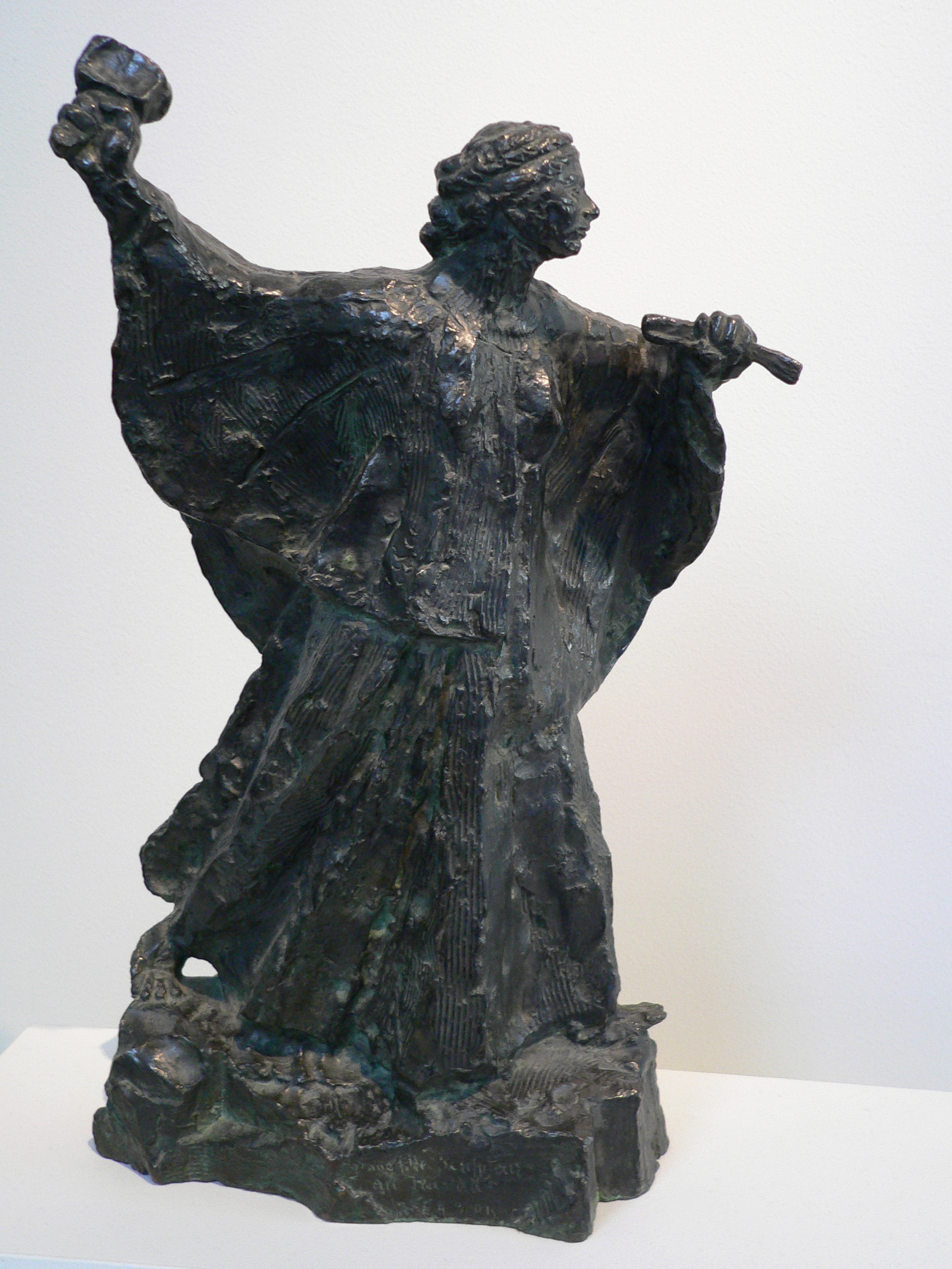 Émile-Antoine Bourdelle, The sculptress at work, 1906 Bronze Alexis Rudier foundry [inspired by Cléopatre Sevastos] gift of B. Gerald Cantor collection